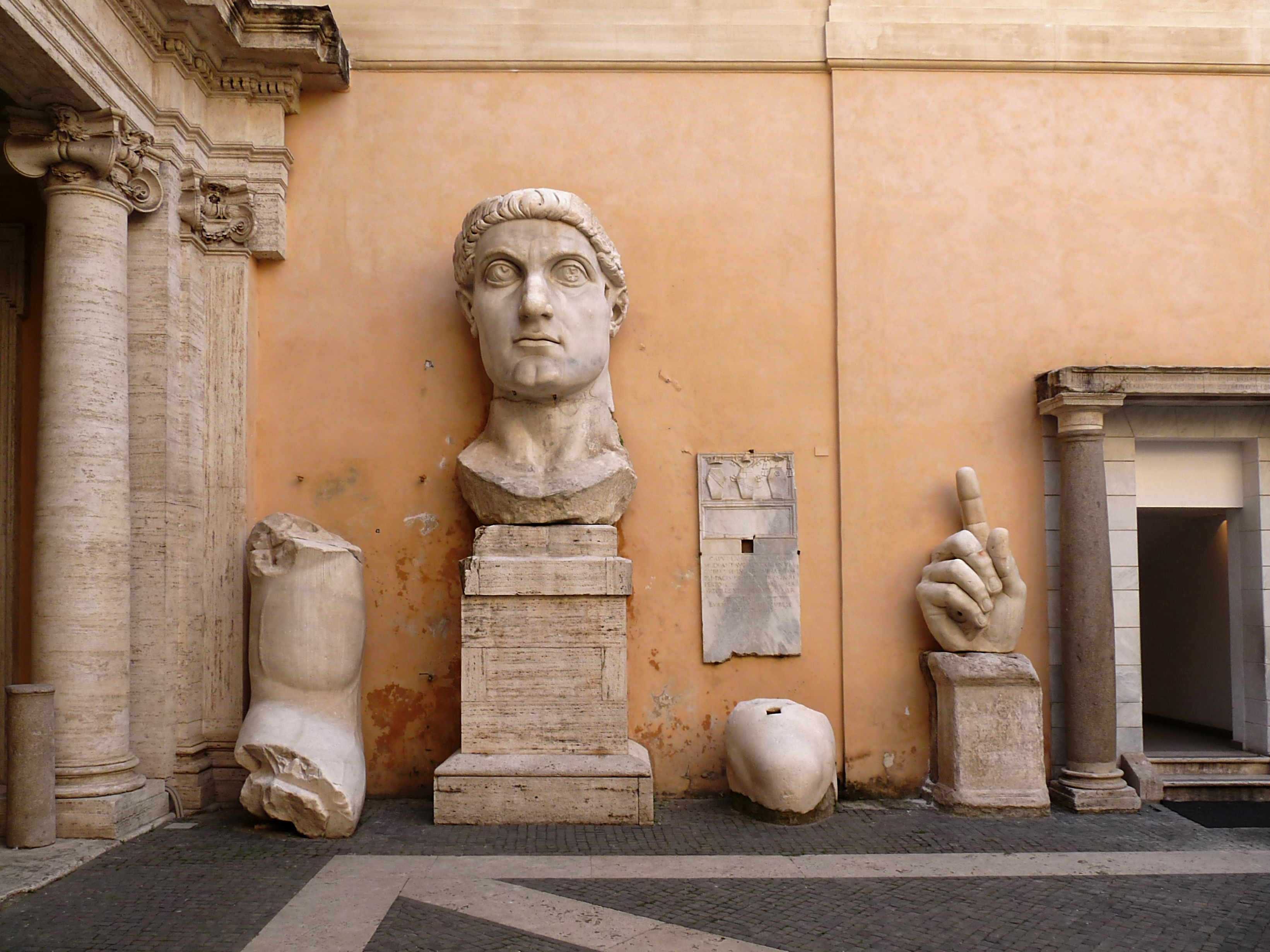 Parts of the huge statue of Constantinus I in the Capitolini museum in Rome, Italy